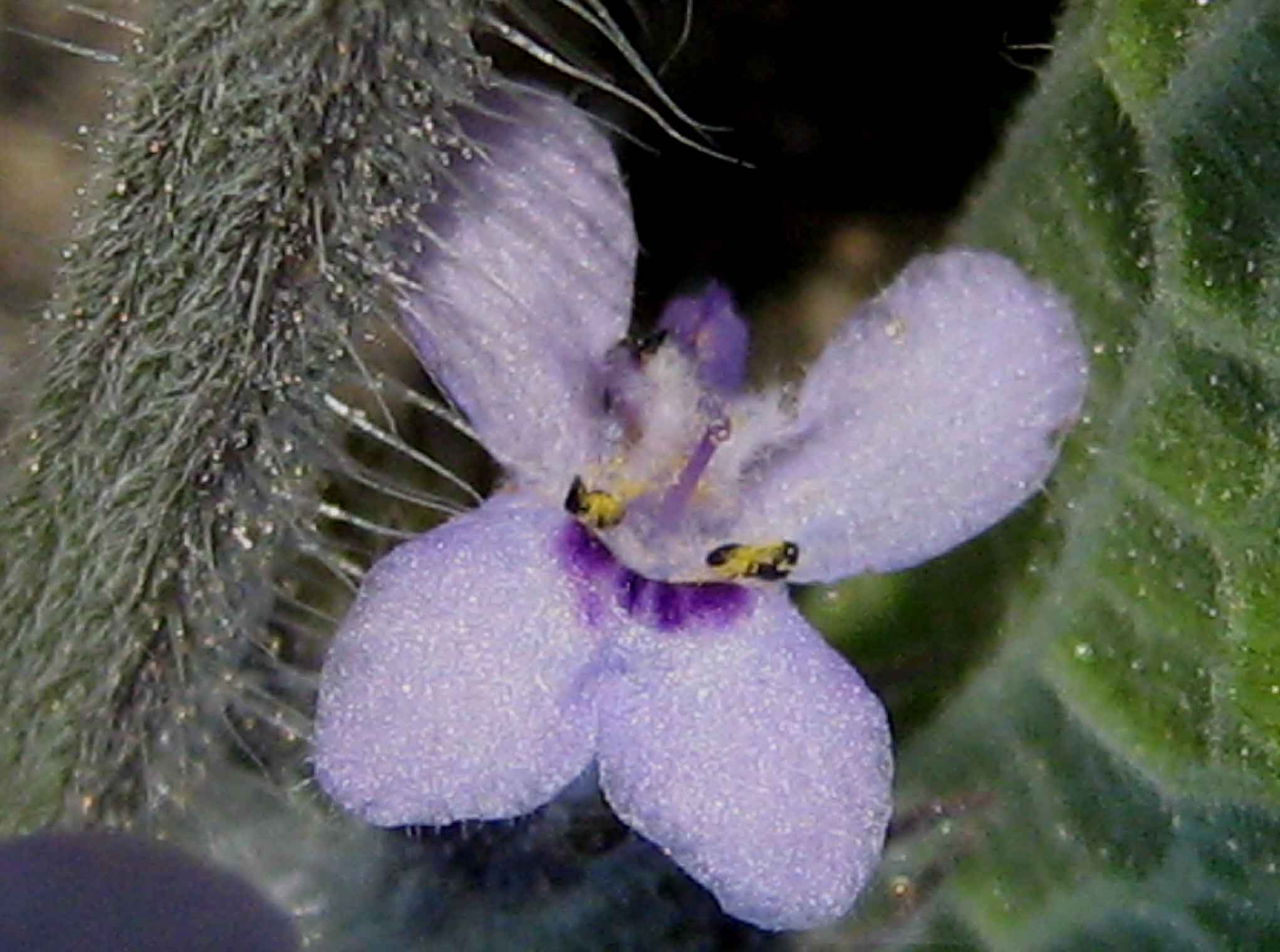 Mesosphaerum suaveolens (L.) Kuntze, Lamiaceae, Atlantic forest, northeastern Bahia, Brazil Shrub 2 m. Popovkin 506 (HUEFS).